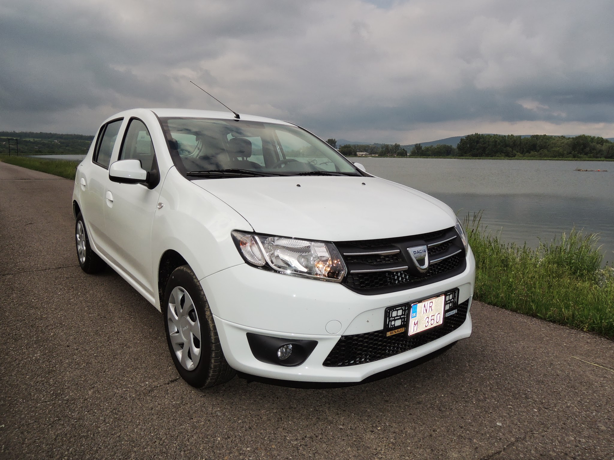 Sandero II Arctica 1.5 dCi 55 kW/75HP